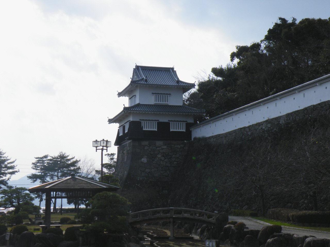 Kushima Catsle(Omura,Nagasaki)